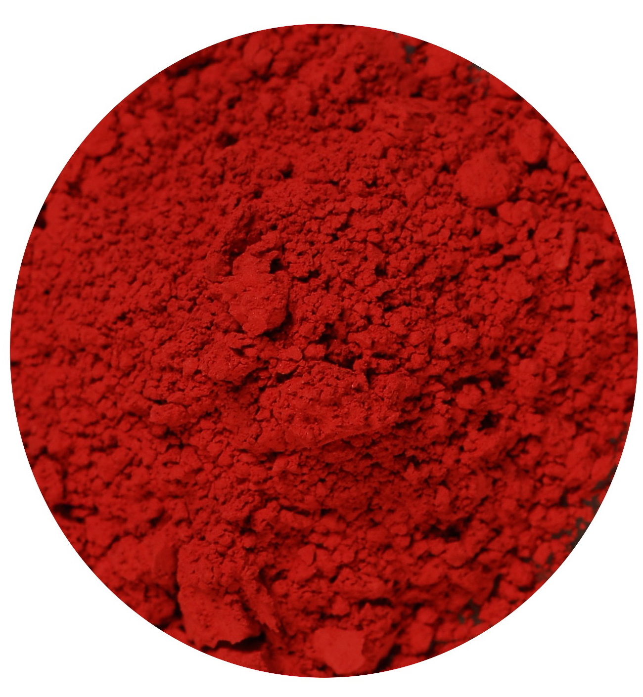 Vermillon pigment